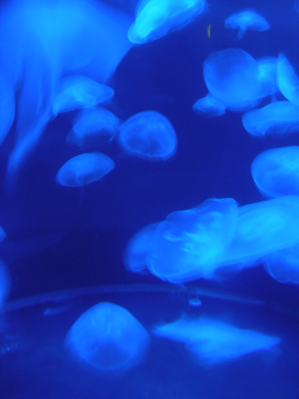 AQWA, Perth, jellyfish (Sunset Coast)